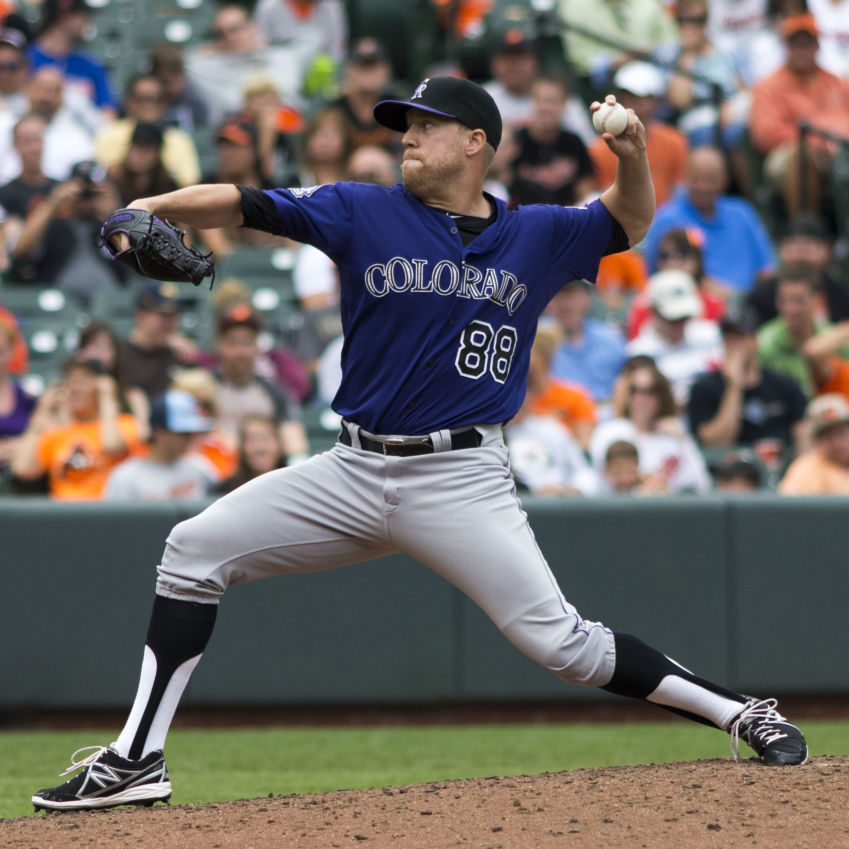 Josh Outman